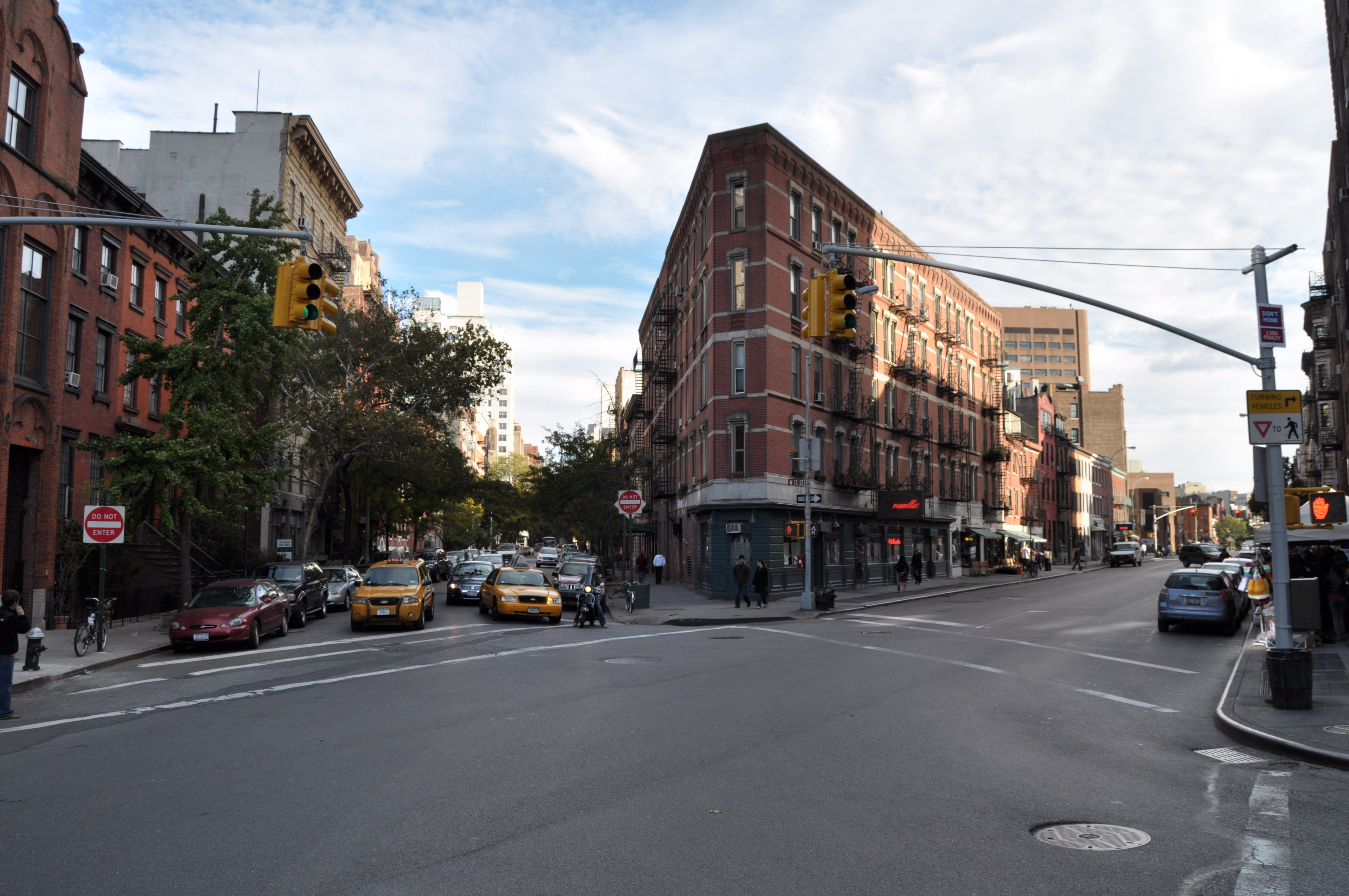 13th Street at the 8th Avenue intersection in New York City